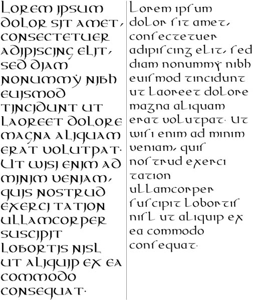 Simulation of uncial and semi-uncial script